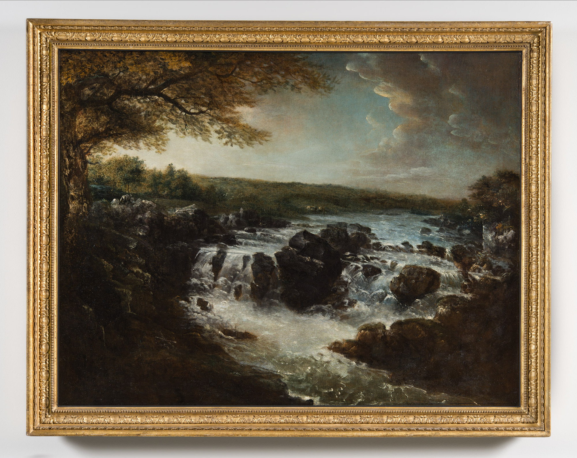 Great Falls of the Potomac, oil on canvas, by George Beck, 1797